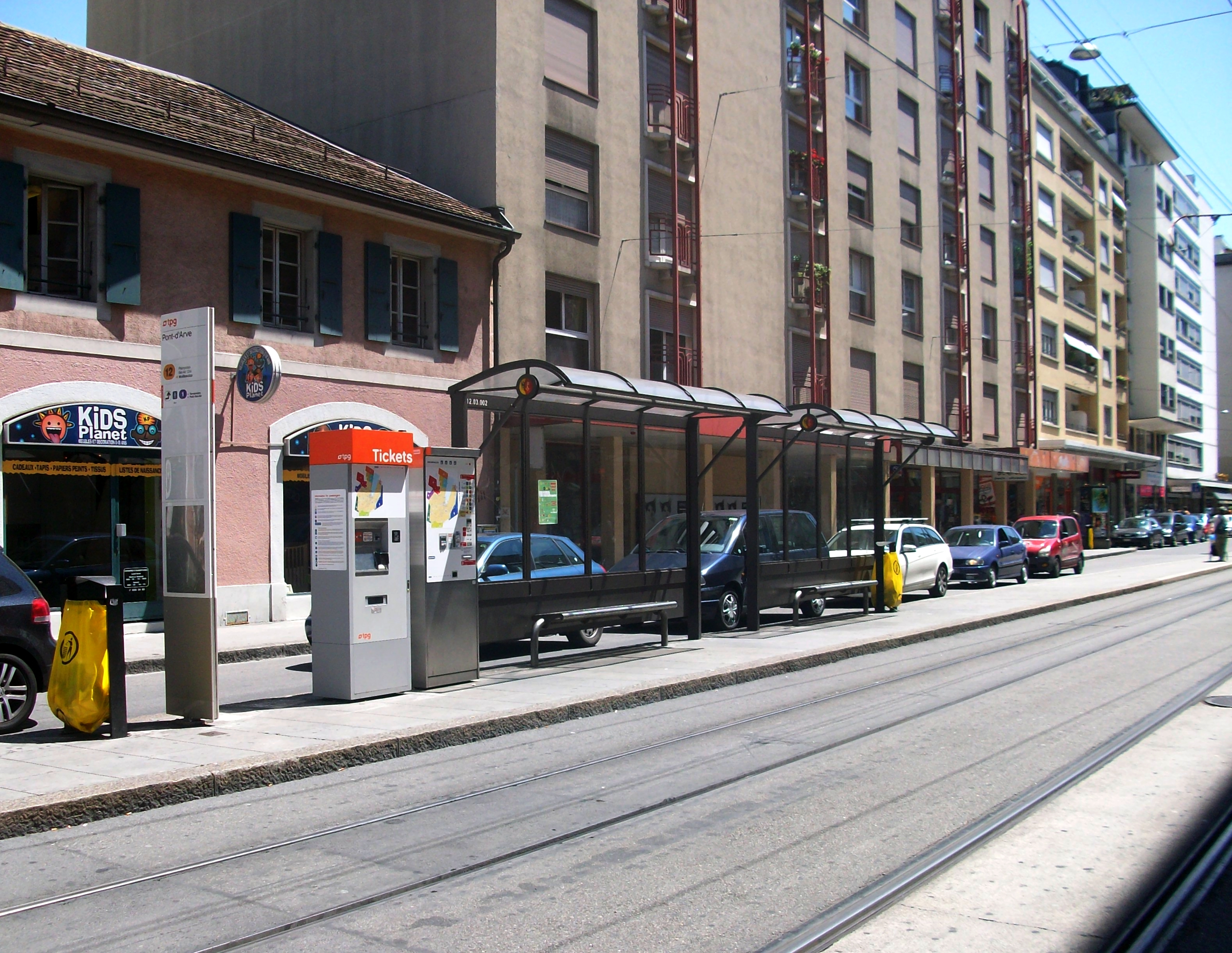 Tram stop (TPG), Geneva